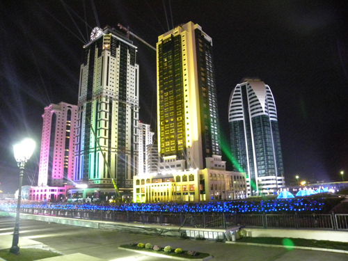 Grozny-City Towers Facade Clocks